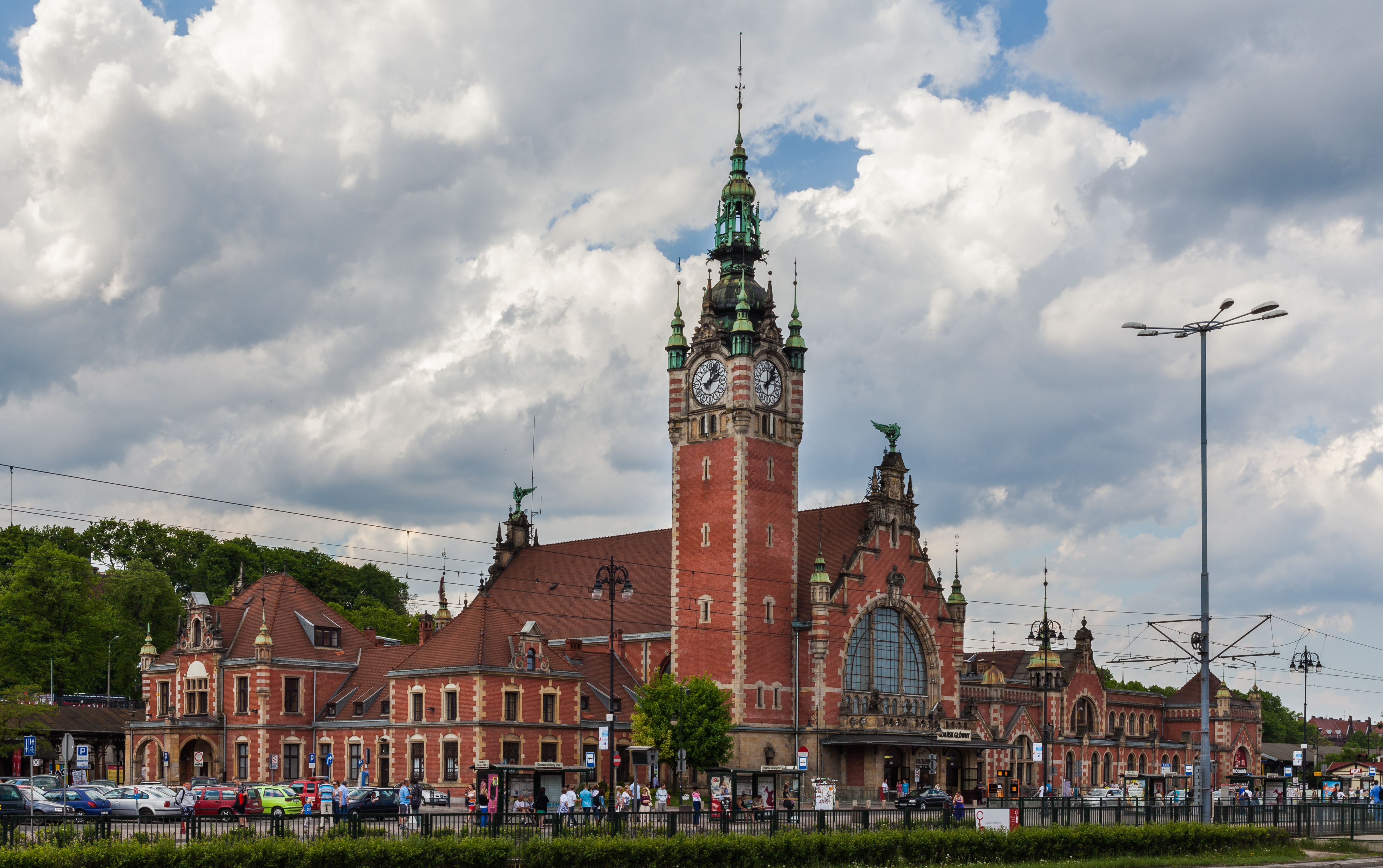 Central Railway Station, Gdansk, Poland